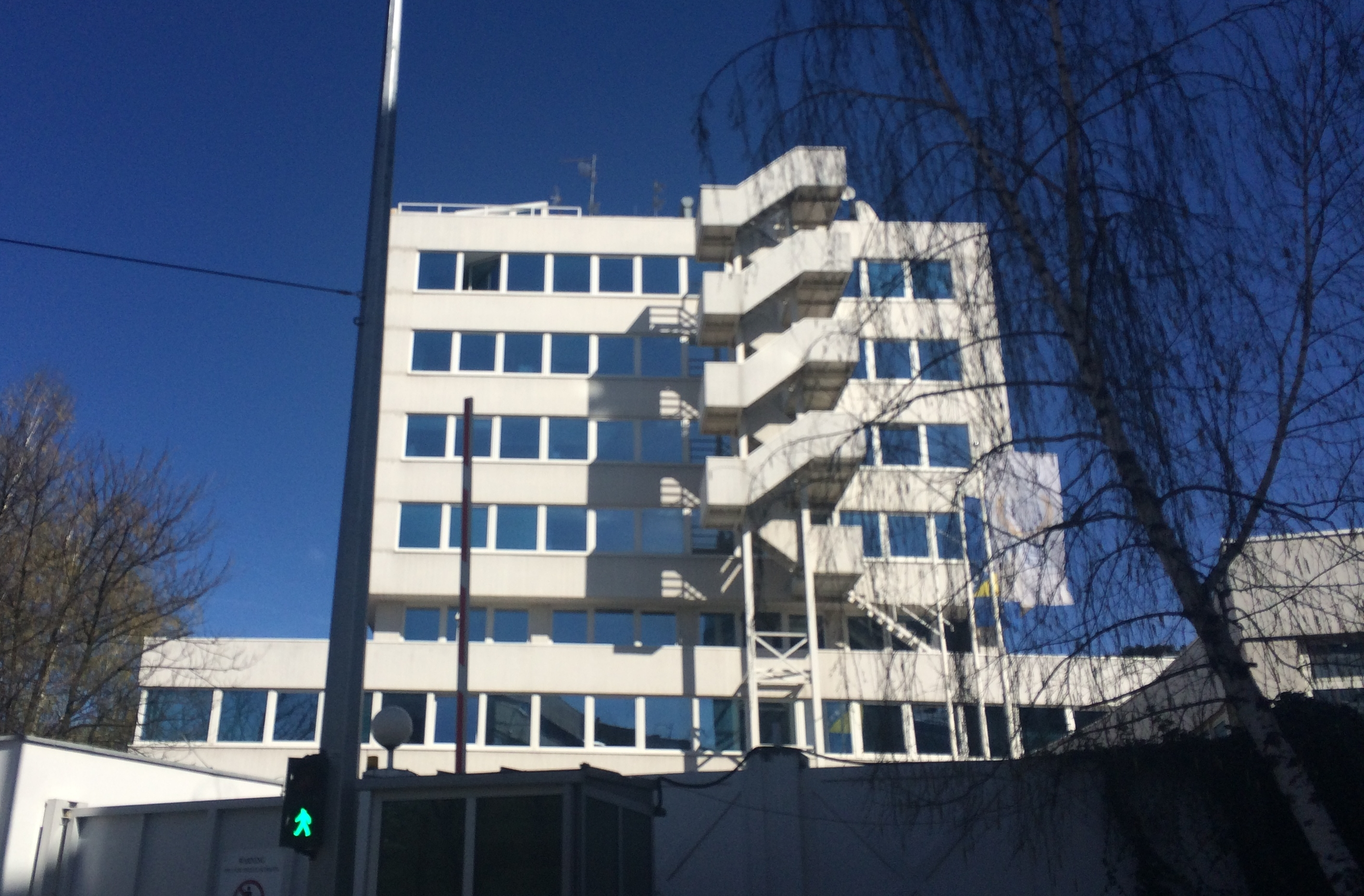 Office of the High Representative (OHR), the highest authority in Bosnia and Herzegovina according to the Dayton Accord since 1996.